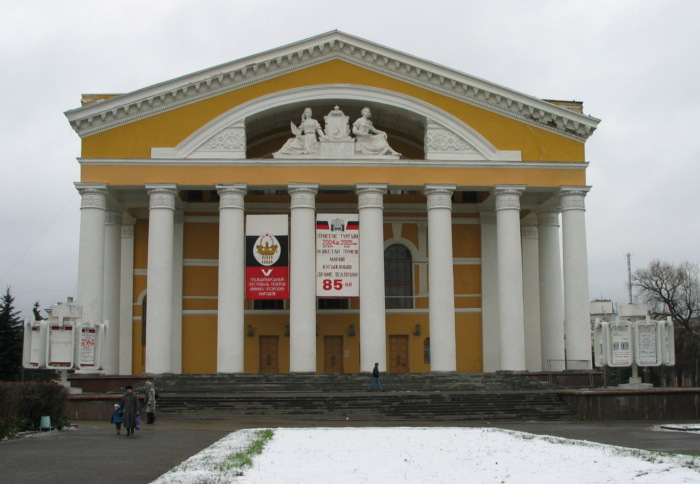 Russia, city of Yoshkar-Ola, National Theatre of Mari El